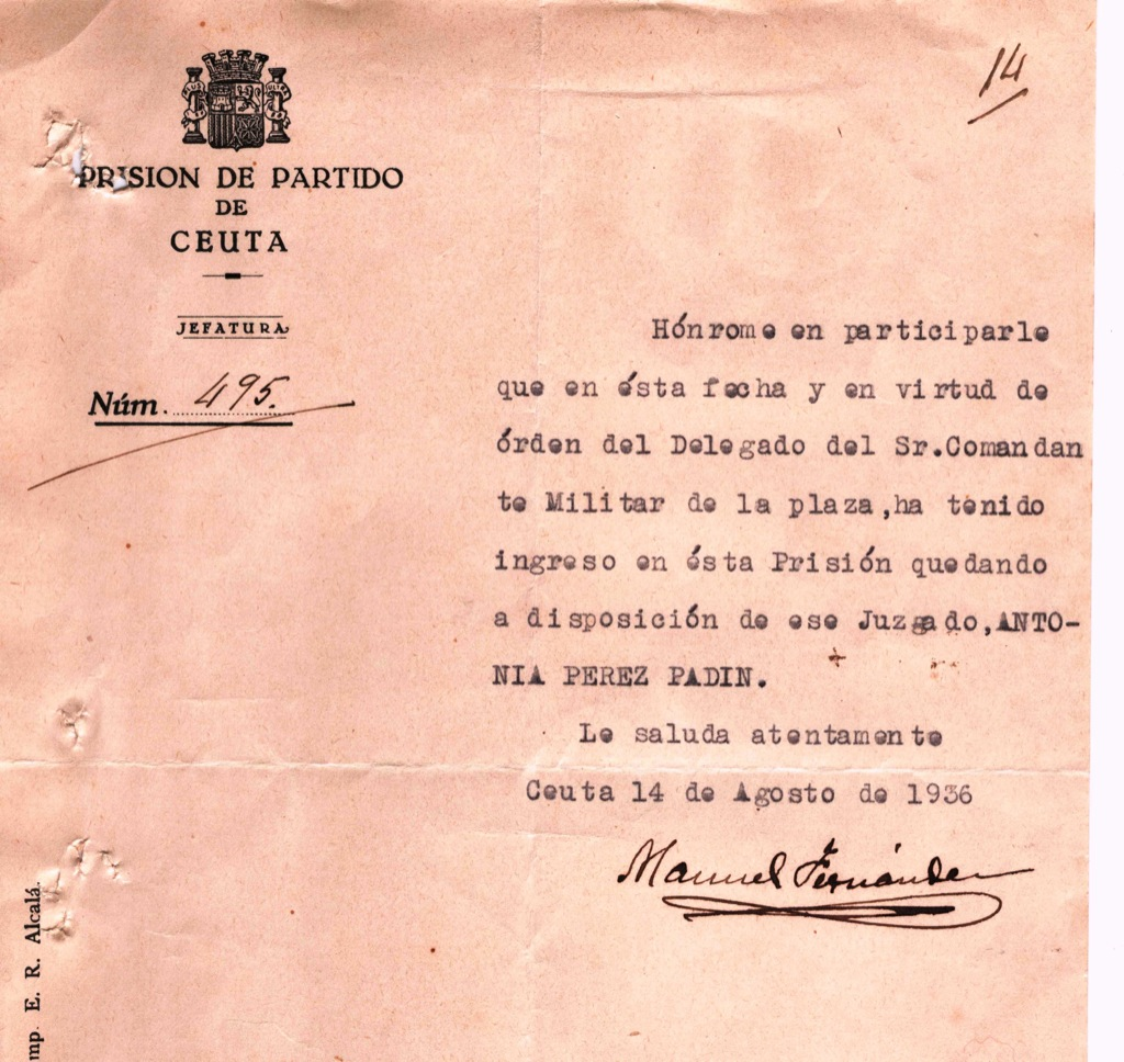 Card confirming that Antonia Pérez Padín is in a prison on a specific date.